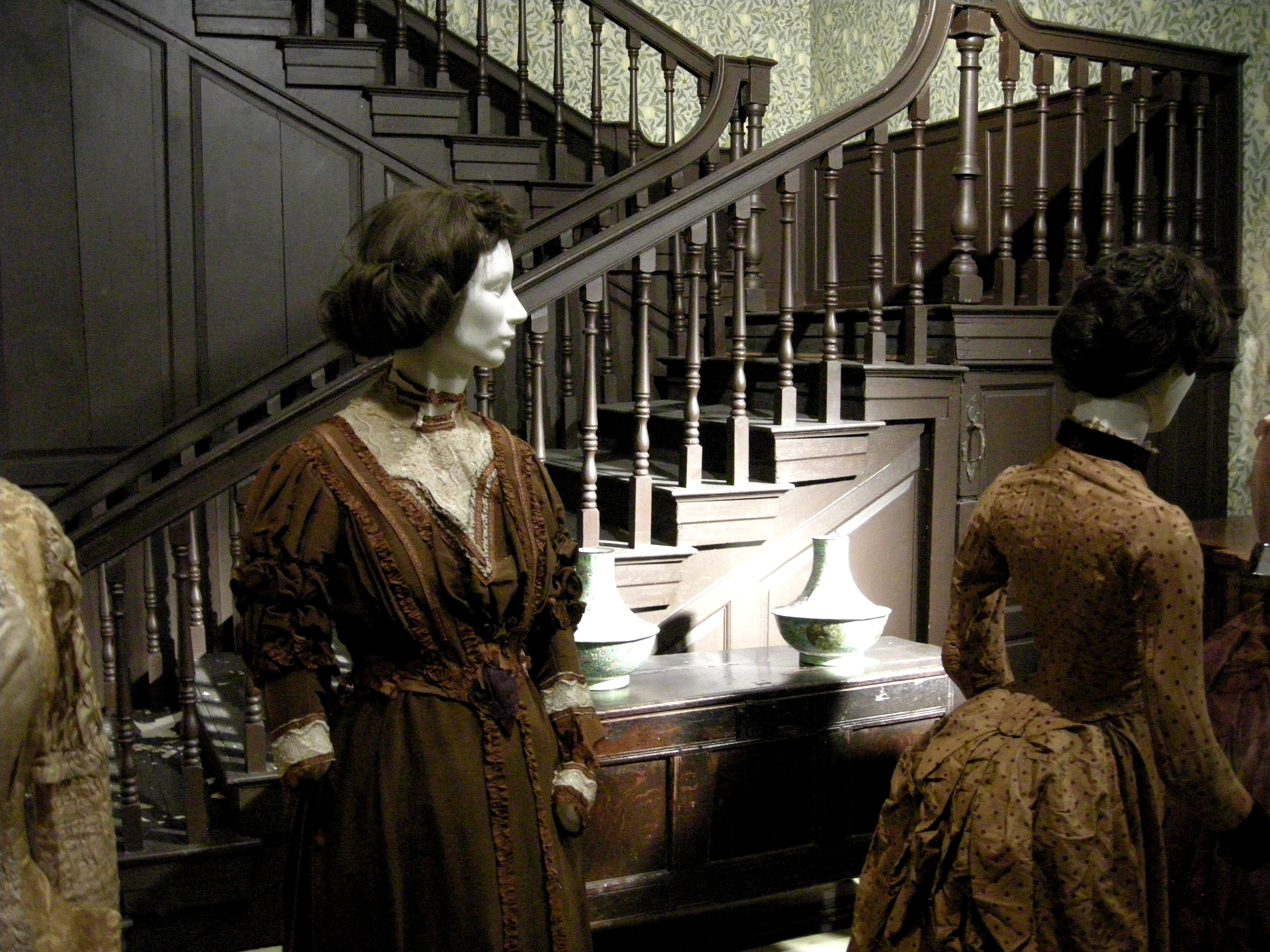 Bankfield Museum, Halifax, West Yorkshire, England. 53.43'.57".N; 1.51'.48".W.